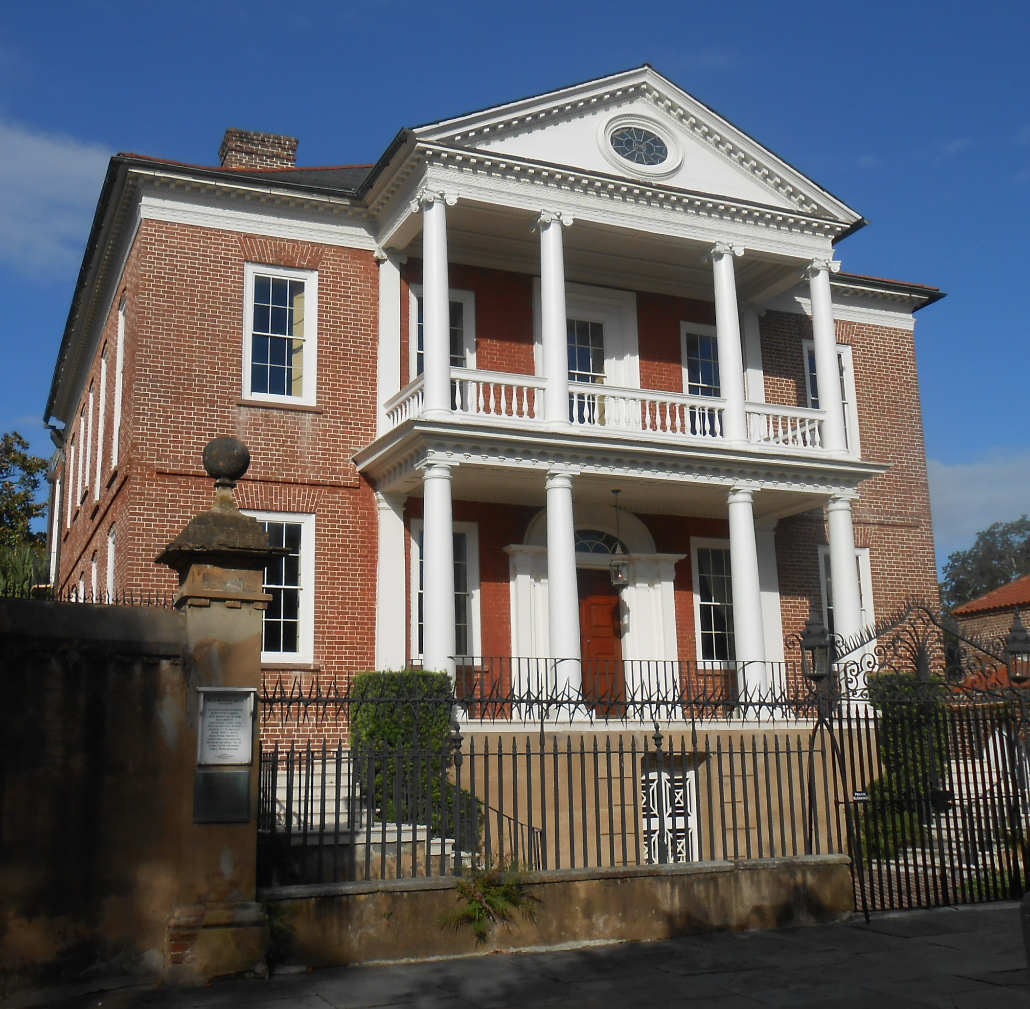 The Miles Brewton House at 27 King St., Charleston, South Carolina is a nationally important example of Georgian architecture.